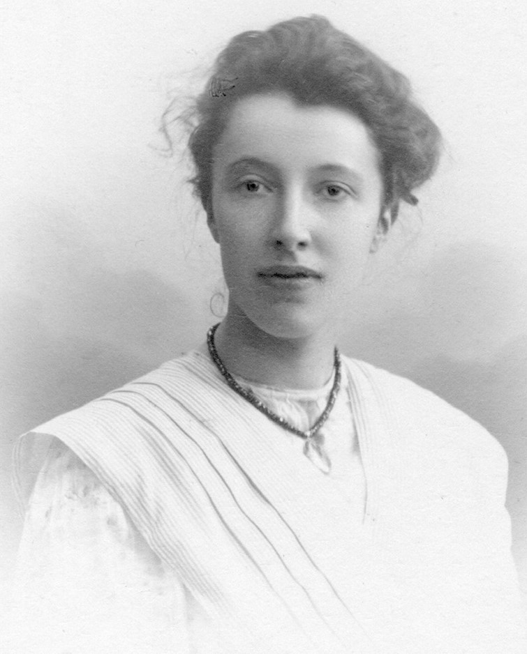 Hendrika Johanna van Leeuwen (1887–1974), Dutch physicist